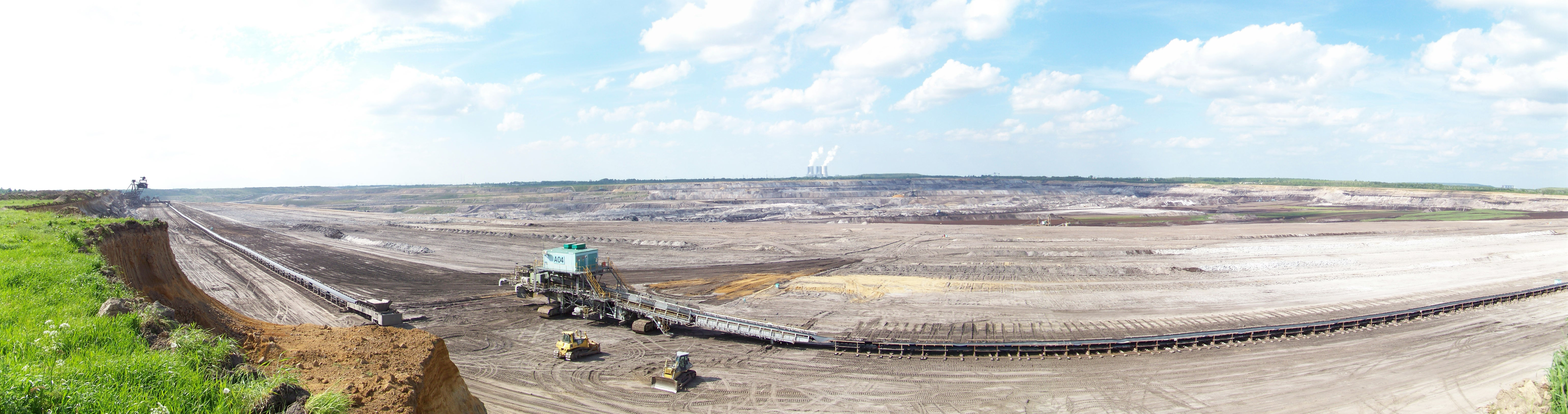 Opencast mining Schleenhain in Saxony, near Heuersdorf. It will swallow up this village.